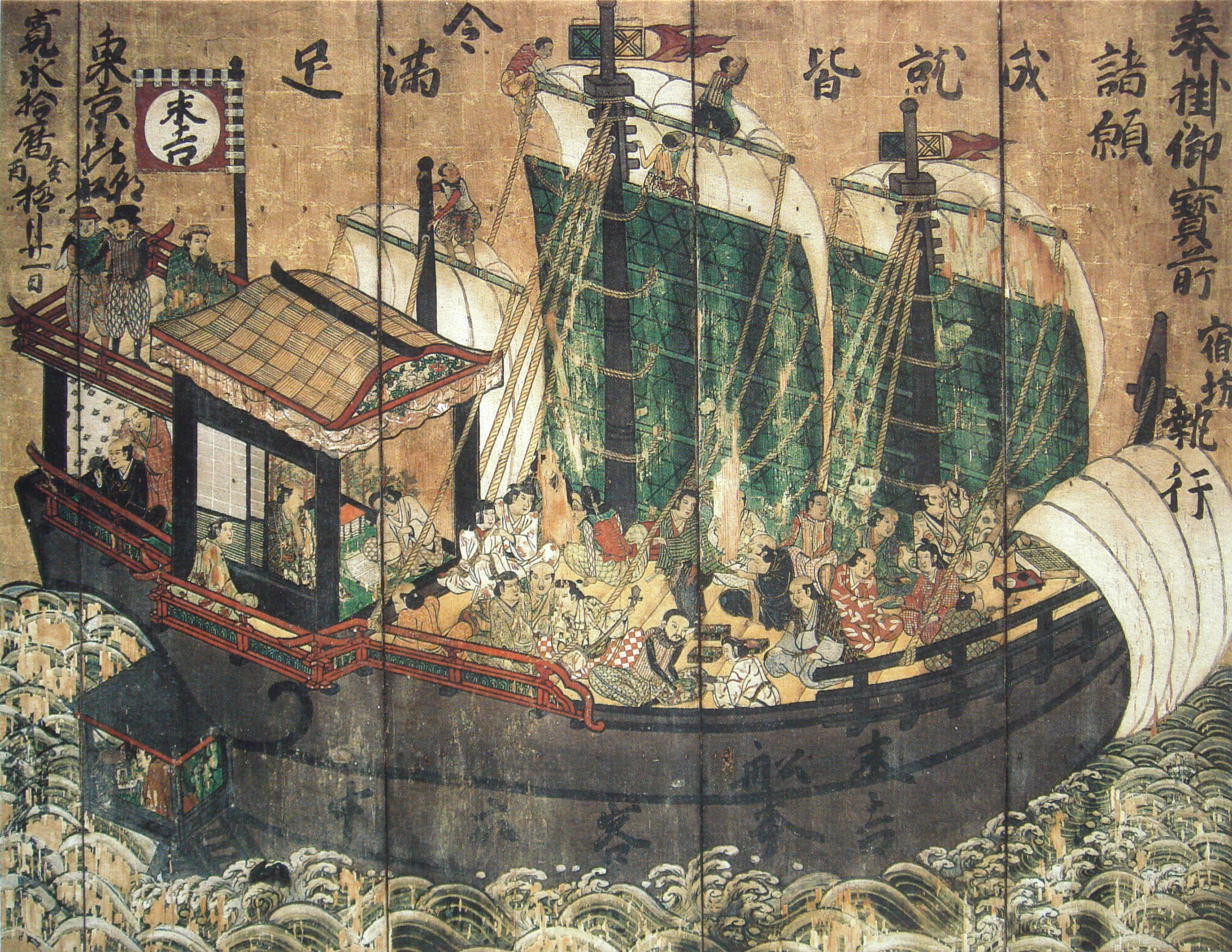 Sueyoshi_ship_tablet_of_1633